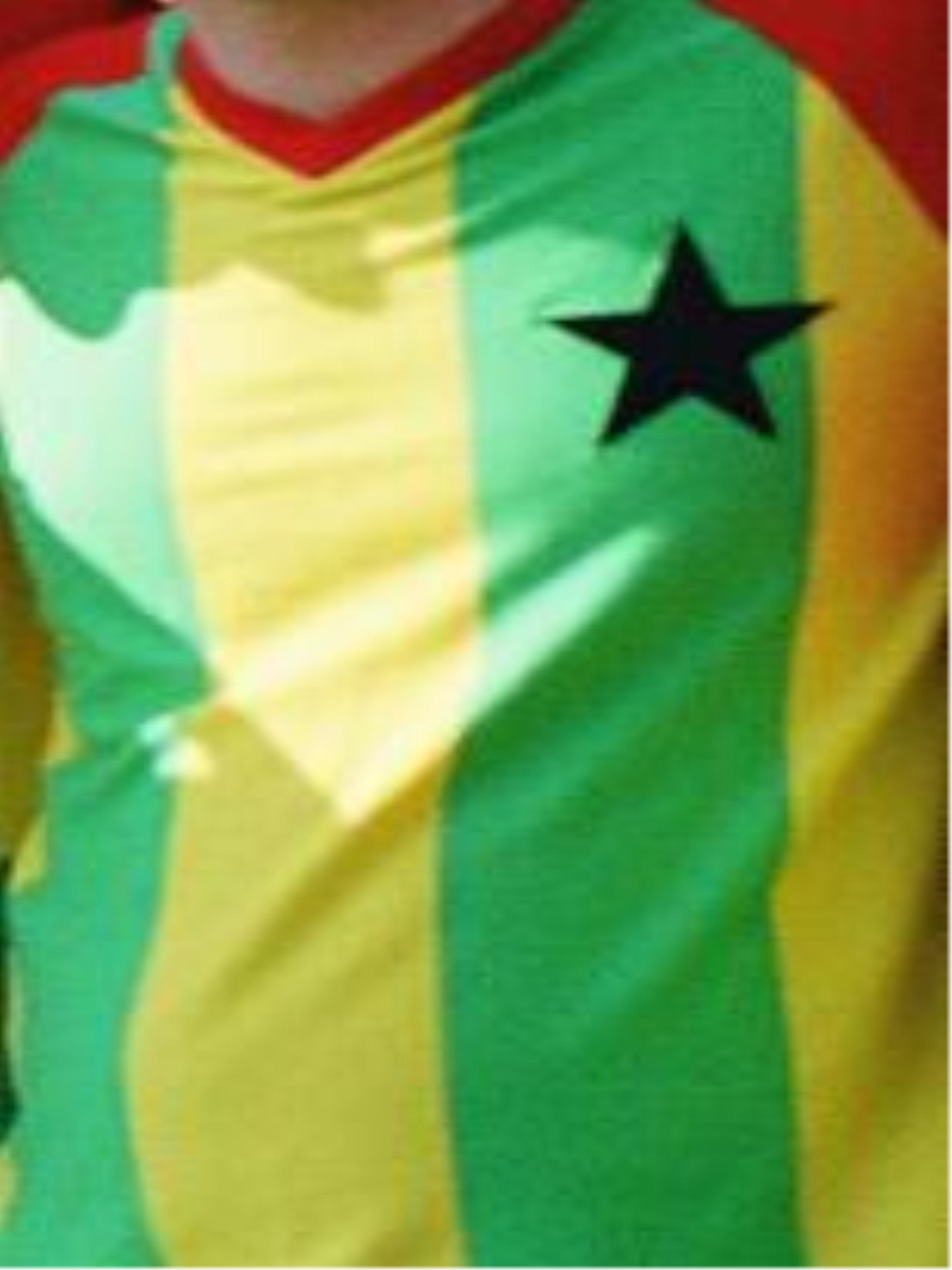 Black Stars (Ghana national football team) Jersey from the 1970s to the 1980s (cropped image).